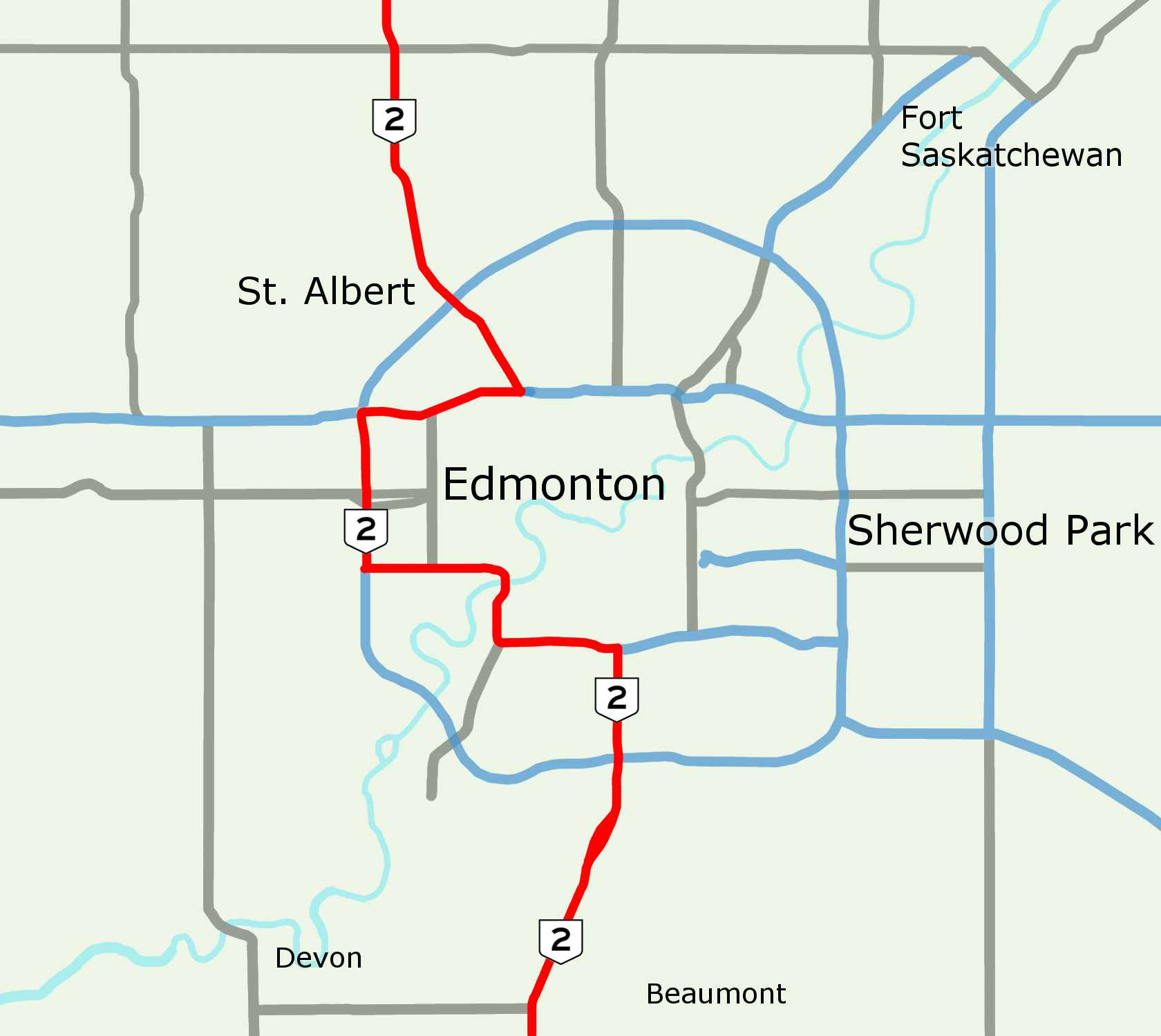 Alignment of Highway 2 in Edmonton, Alberta.